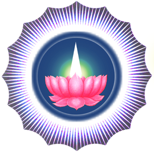 Image for Ayyavazhi template